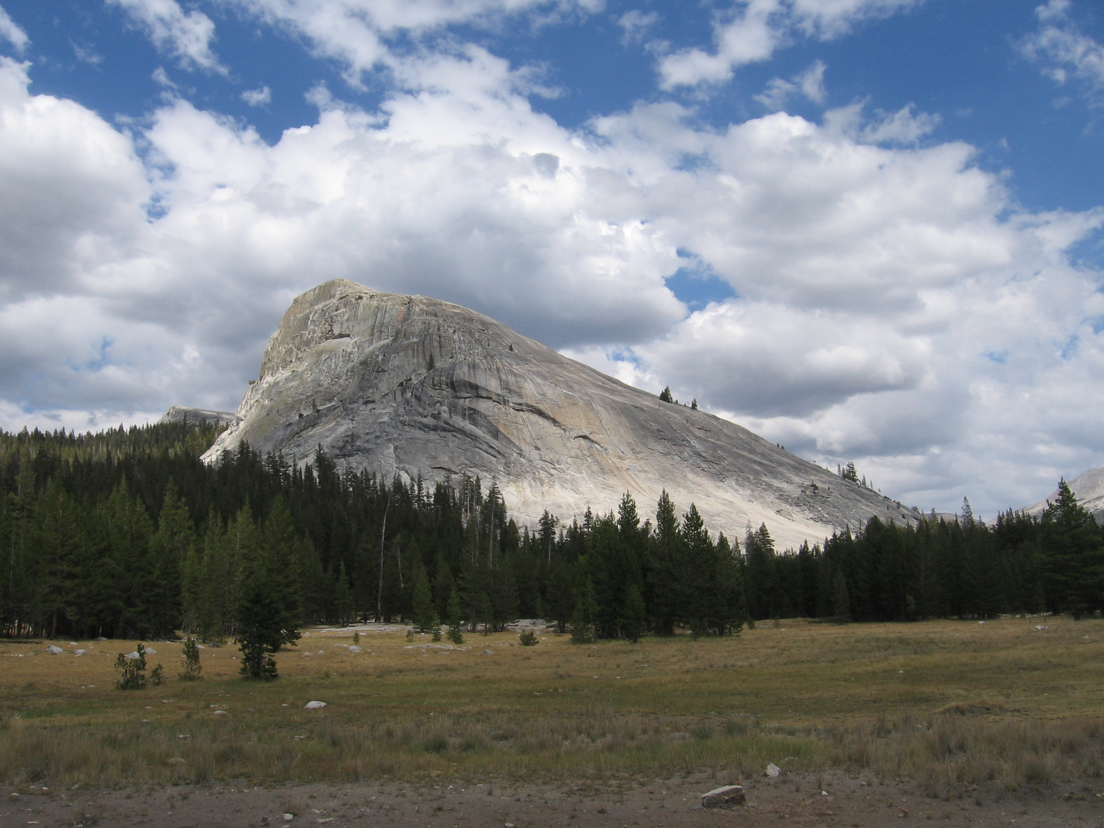 A view of Lembert Dome and Tuolumne Meadows, Yosemite National Park, California, USA